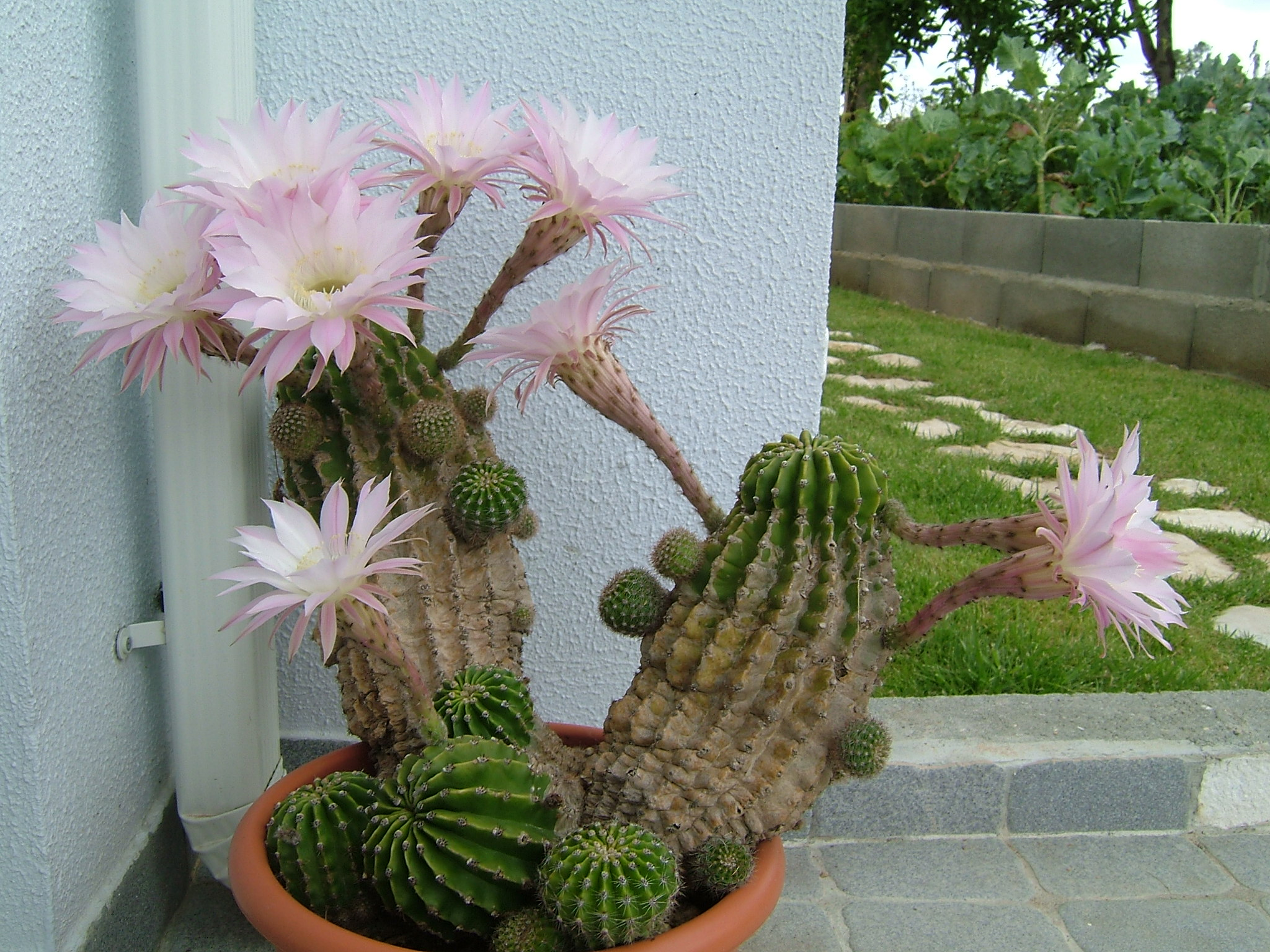 Echinopsis werdermannii or orchid cactus plant. This is not E. werdermannii, but Echinopsis oxygona. The term orchid cactus is used for hybrids of Epiphyllum and Disocactus, not Echinopsis. Photo by Mario Morais 27.Jun.06 in Portugal Camera : Fuji F700